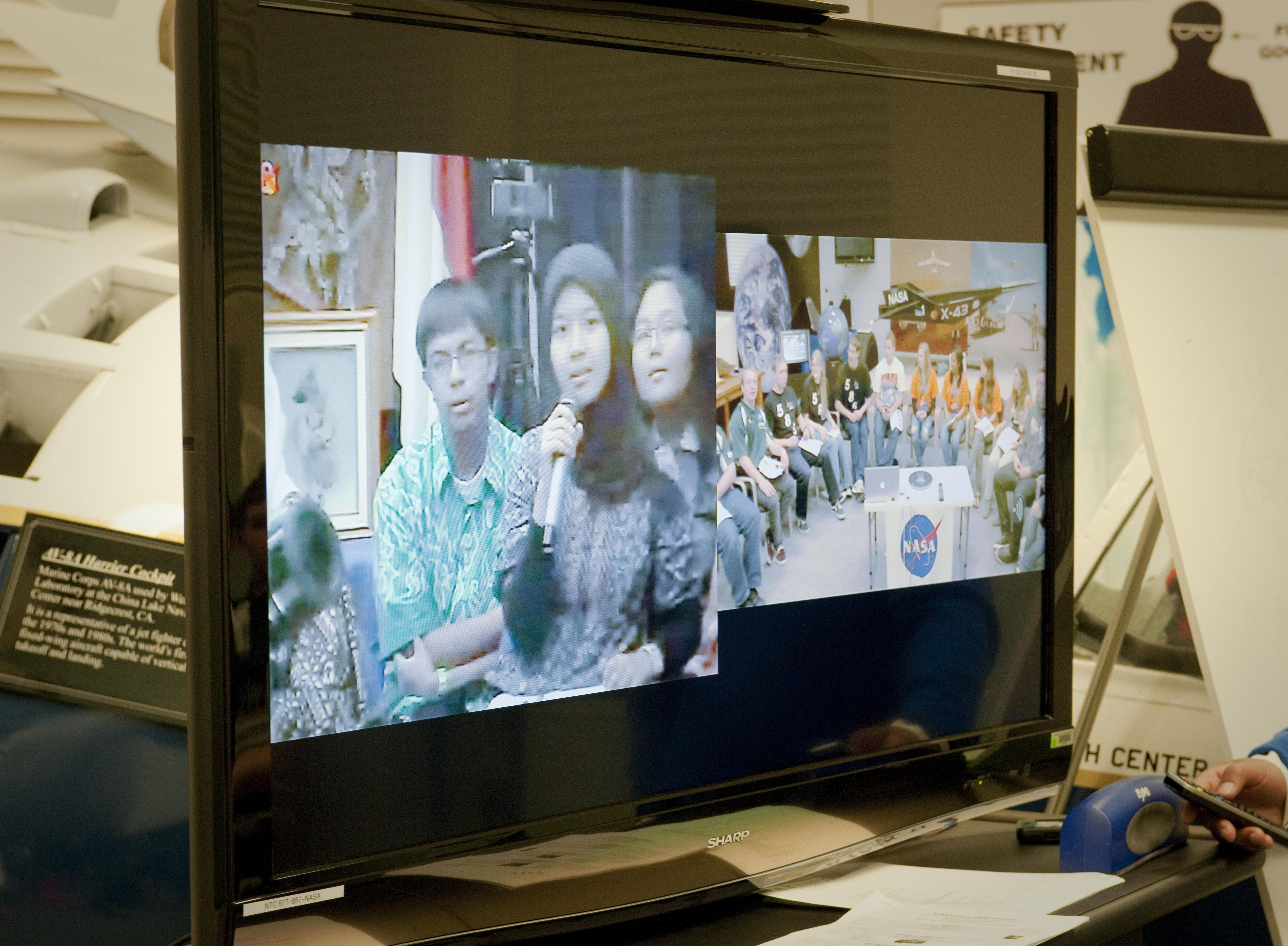 A dozen Indonesian students gathered at the U.S. Embassy in Jakarta (at left in the split-screen video monitor) had the opportunity to query their American high school counterparts on their interests, experiences and culture during the interactive video link-up recently at NASA Dryden's Aerospace Exploration Gallery in Palmdale, Calif.